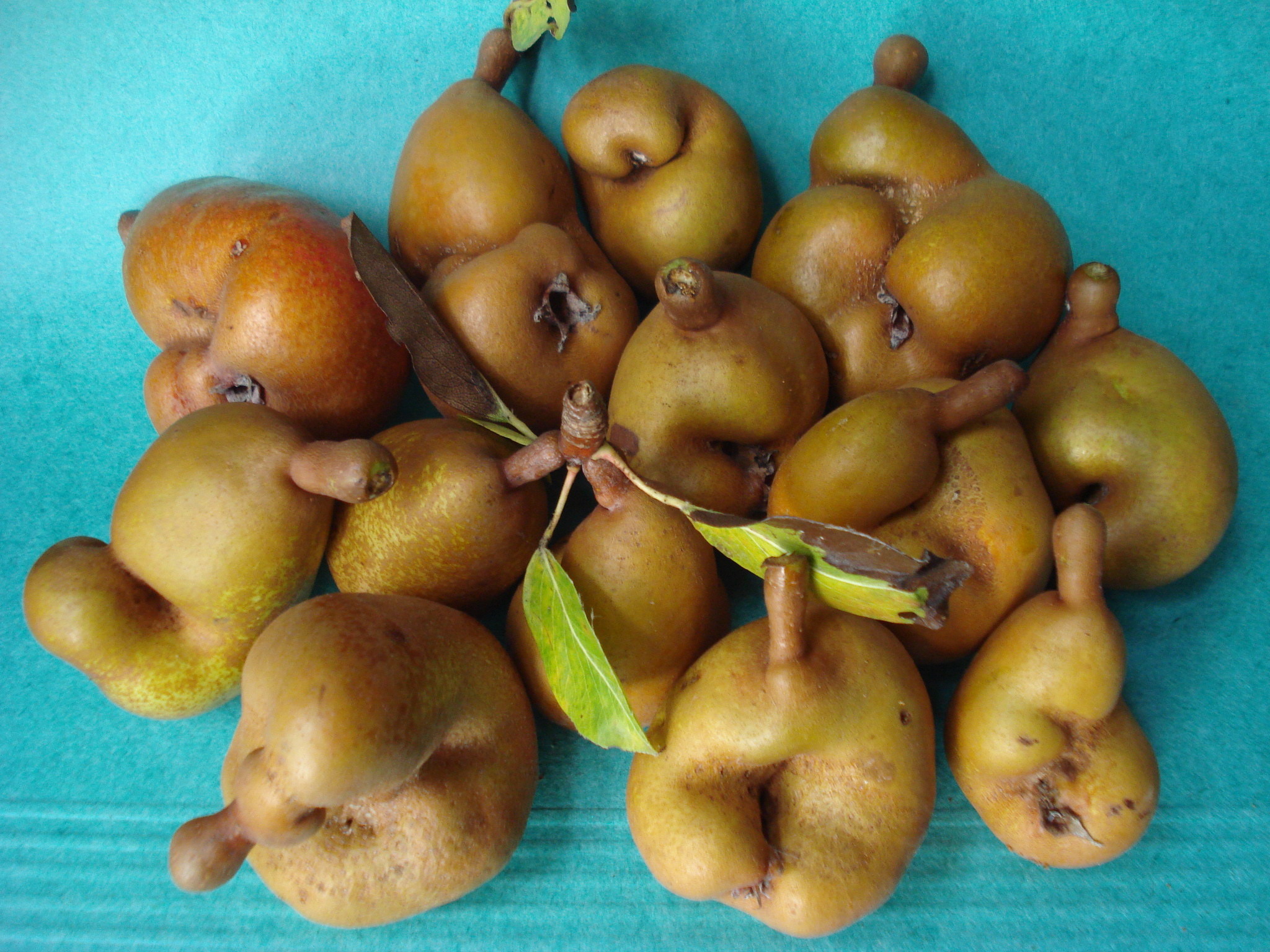 Deformed "Clairgeau" pears